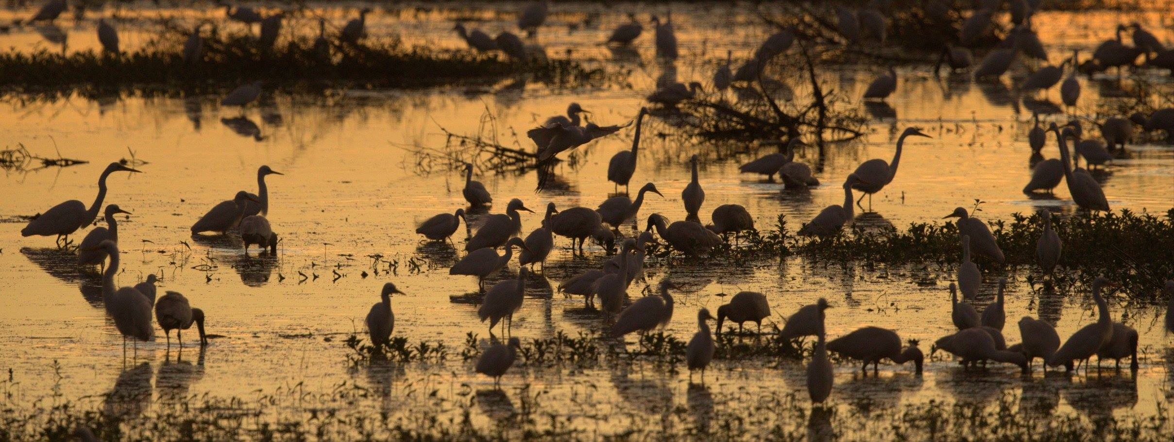 Dawn at Fogg Dam